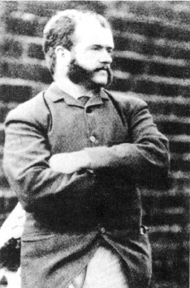 Tom Horan, Australian cricket captain of the 1870's and 80's.